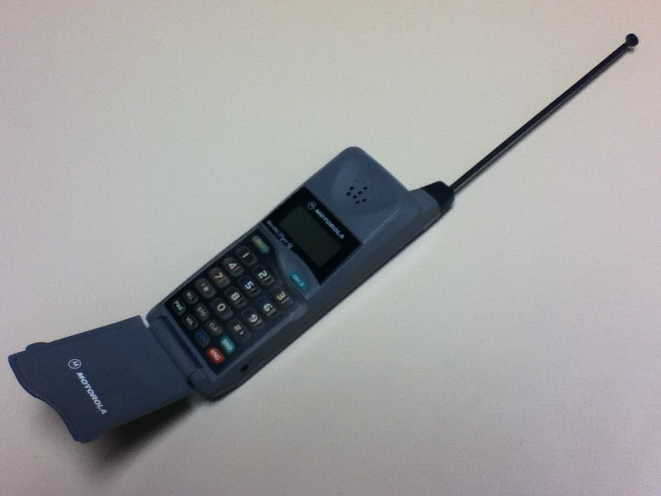 A Motorola MicroTAC Piper phone from 1995, open and with the antenna extended